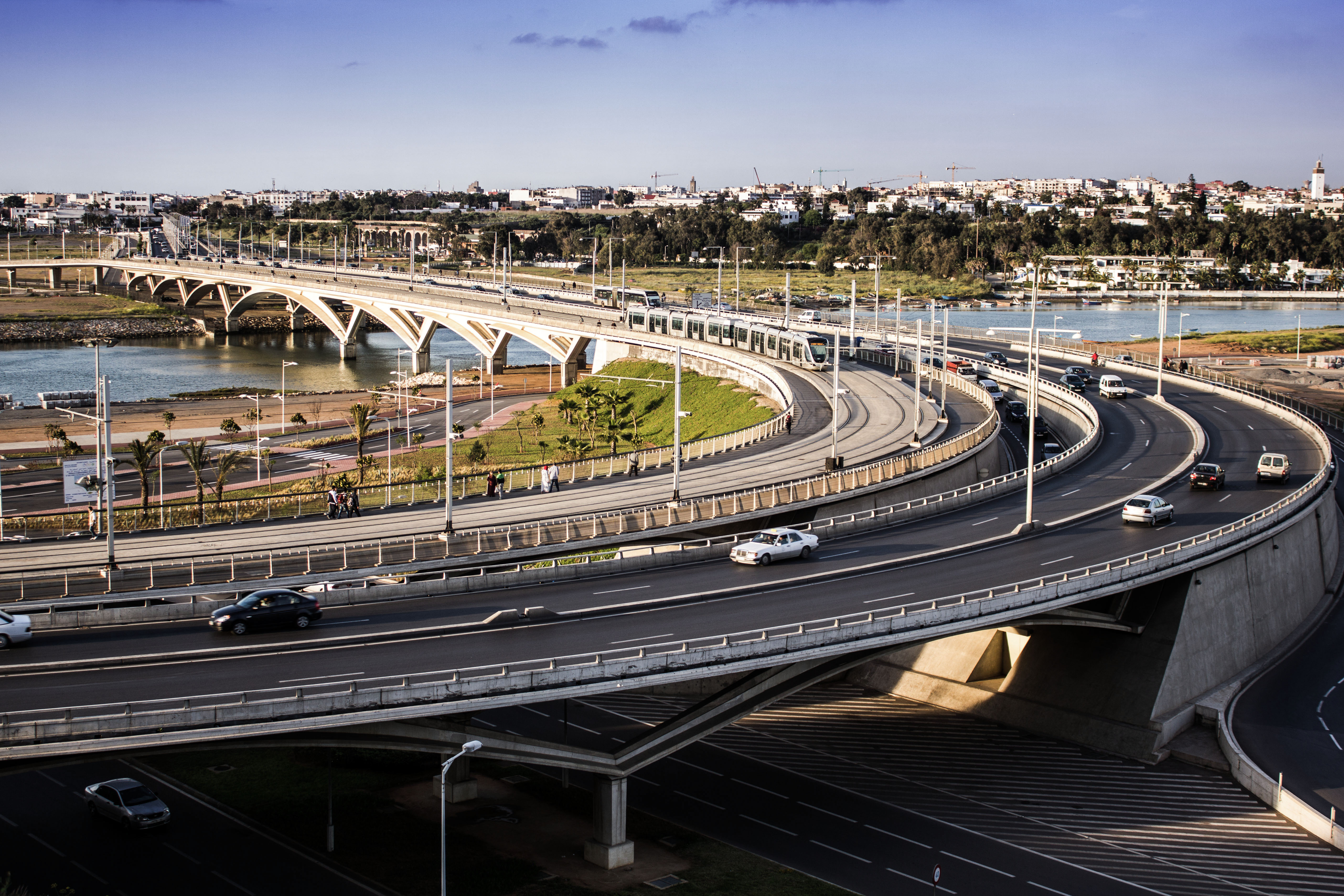 Hassan-II Bridge